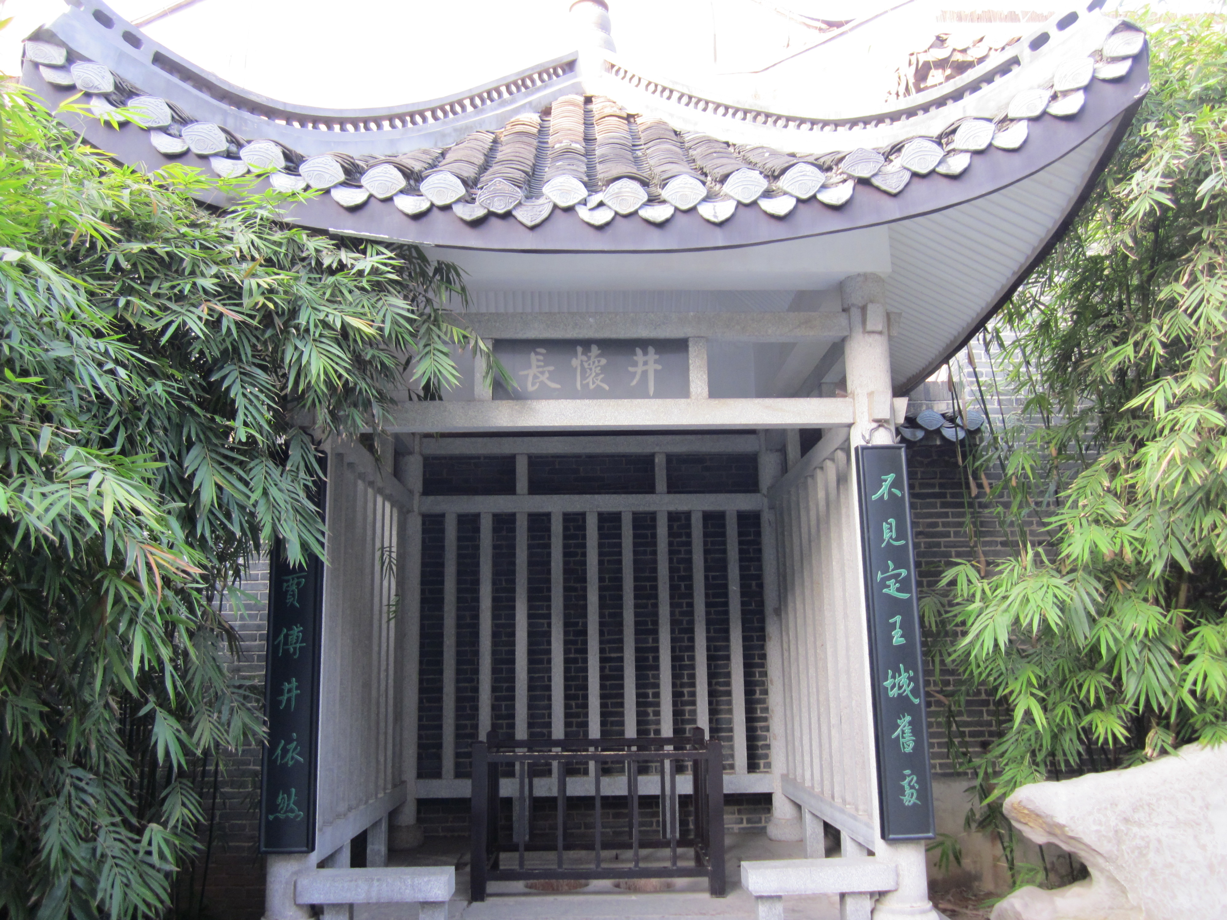 Former residence is located in China jia yi changsha in hunan liberation west road and peace at the street corner, the former residence of hunan province jia yi is protected units of cultural relics.